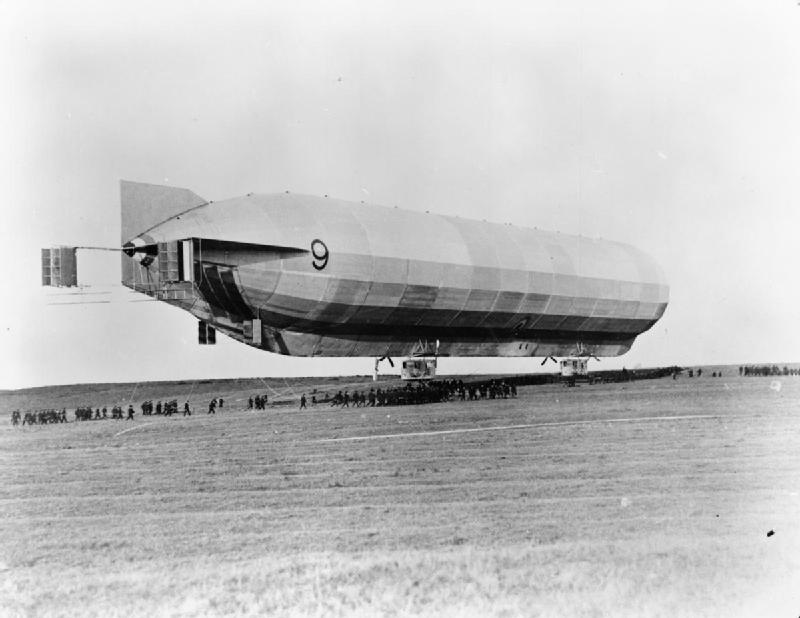 The airship HMA Number 9, being handled on the ground.